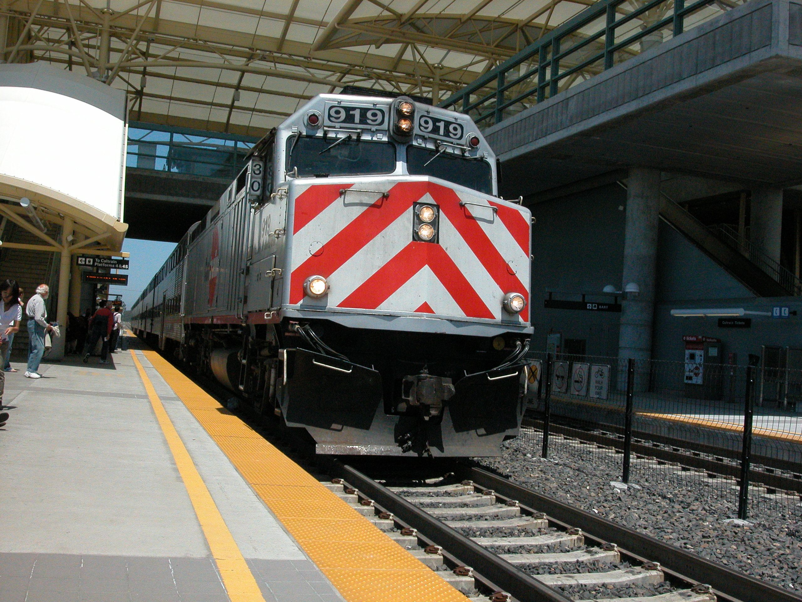 Front of Caltrain EMD F40PH.